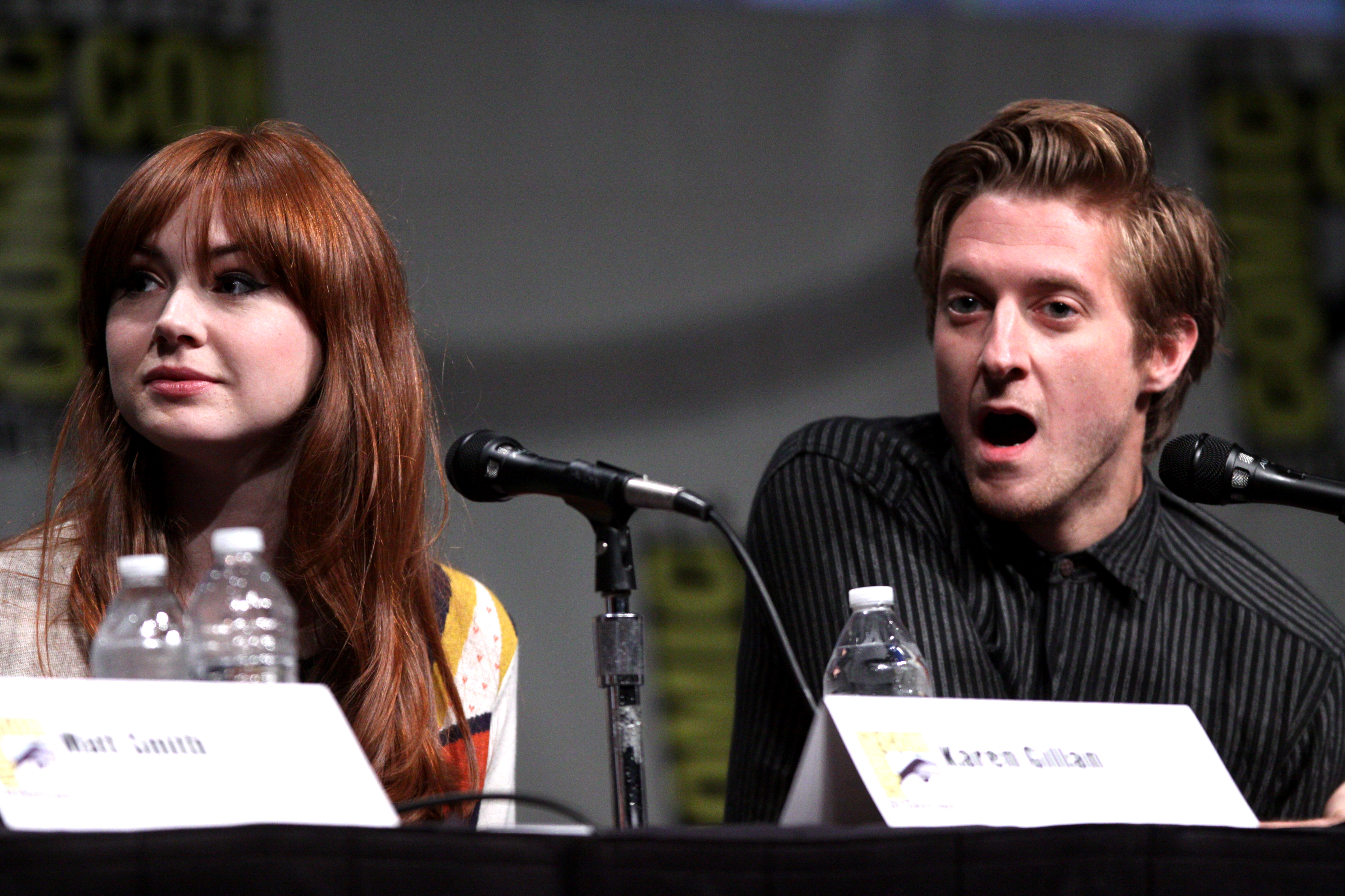 Karen Gillan & Arthur Darvill speaking at the 2012 San Diego Comic-Con International in San Diego, California.